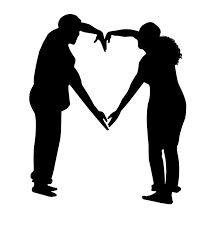 This photo has been taken in the country: Pakistan